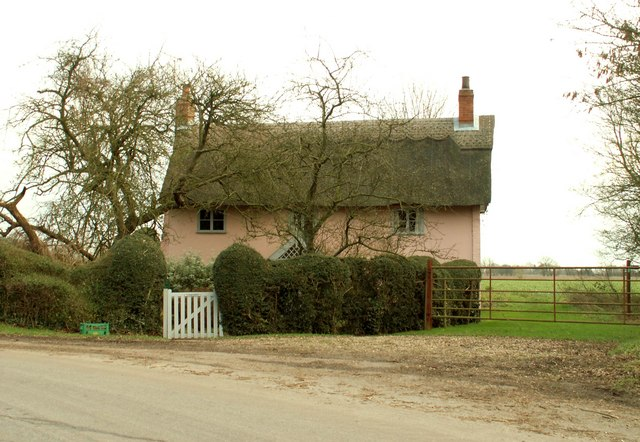 Thatched cottage at Southolt